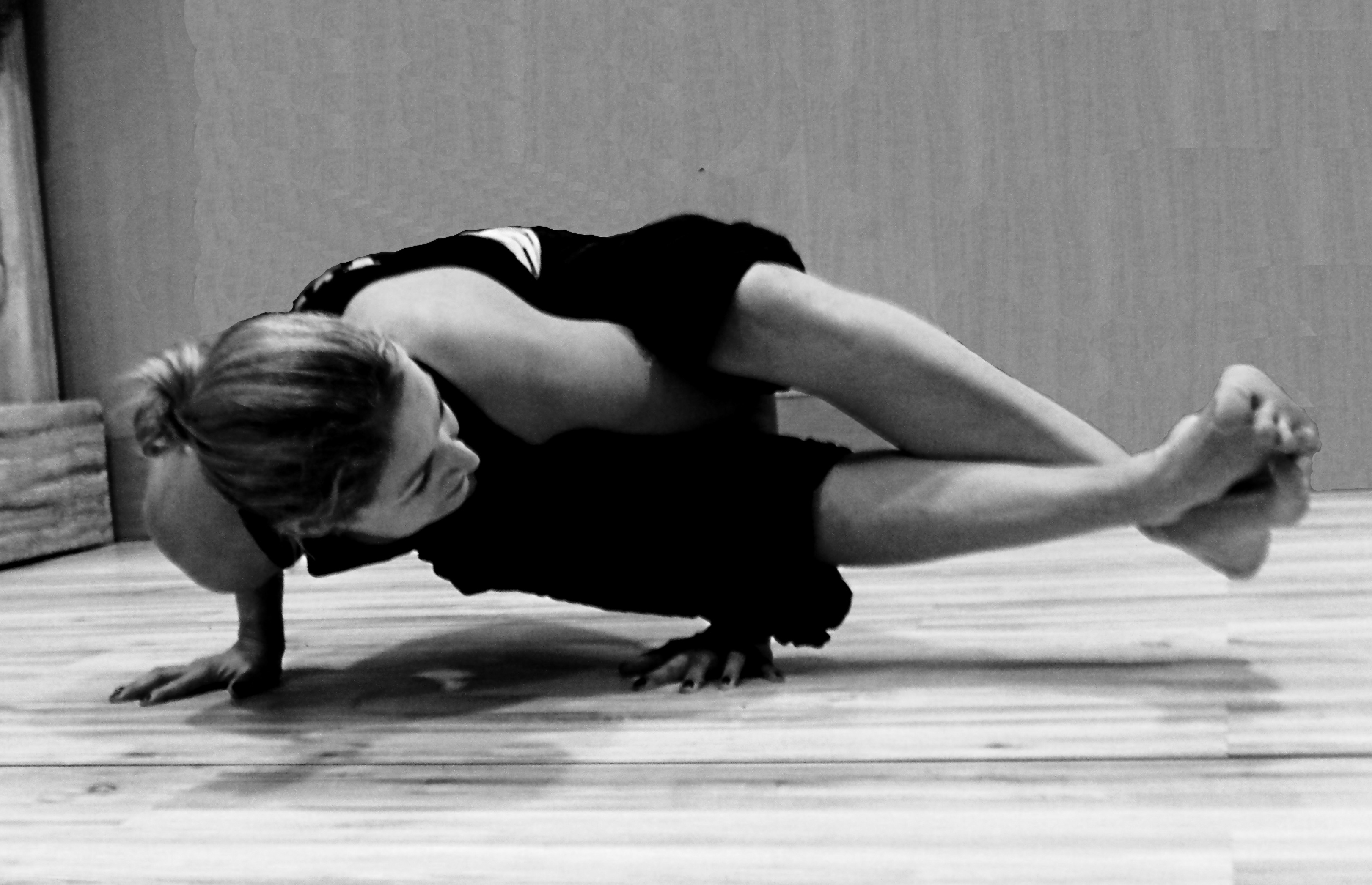 8 angle pose or astavakrasana, a hand balance yoga pose with twist